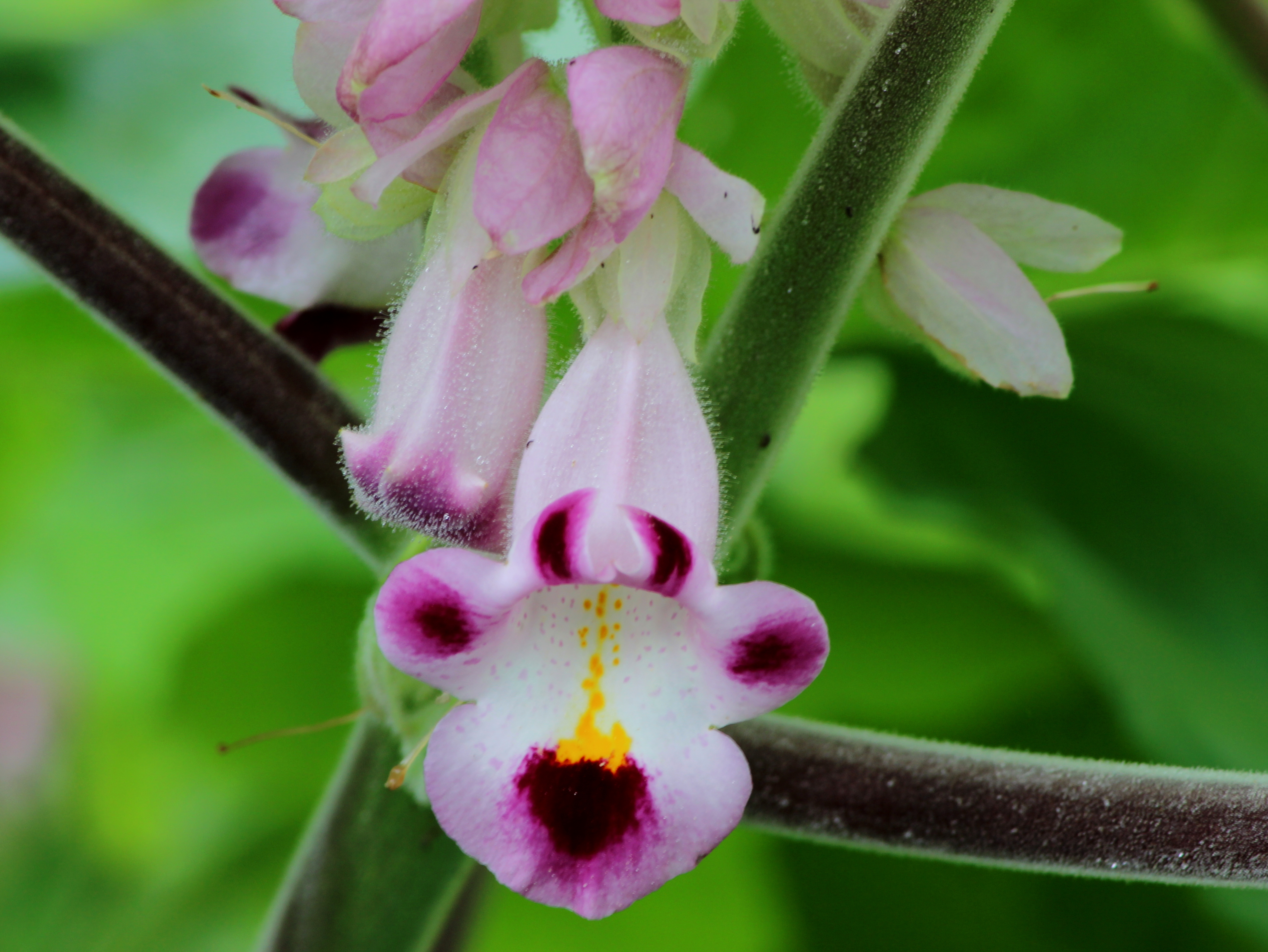 A flower. Martynia species?